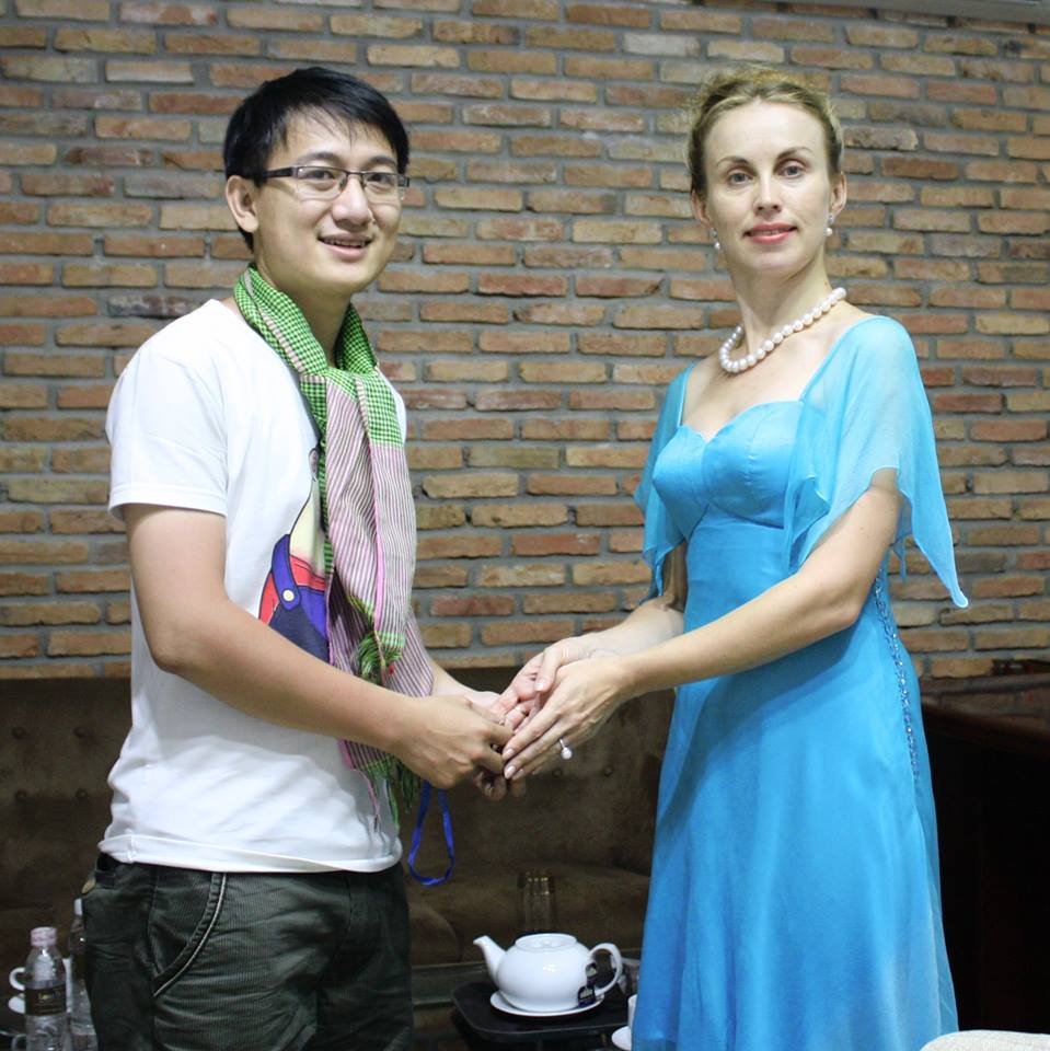 Daria Mishukova là nhà nghiên cứu Đông phương học có các nghiên cứu về văn hóa Việt Nam